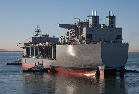 SAN DIEGO - 6 November 2014 - The Navy's third Mobile Landing Platform (MLP) successfully completed launch and float-off at the General Dynamics National Steel and Shipbuilding Co. (NASSCO) shipyard. Lewis B. Puller is the first afloat forward staging base (AFSB) variant of the MLP and is optimized to support a variety of maritime missions. (Photo courtesy of NASSCO)